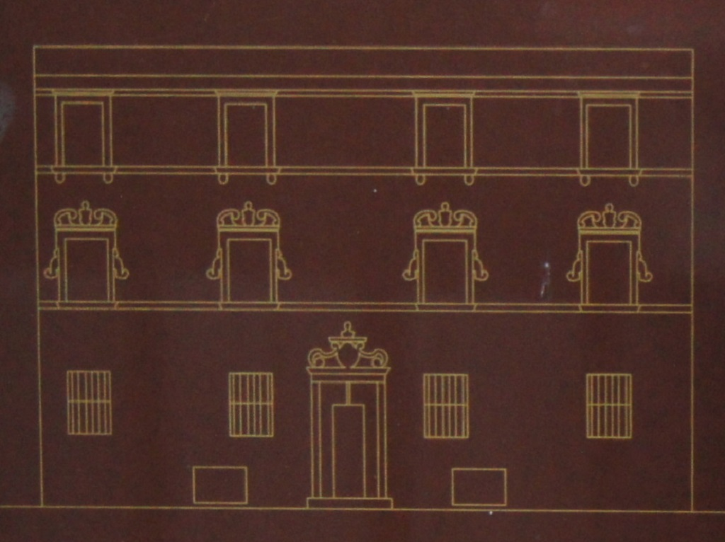 Casa dei Canonici in Locarno, sketch of the northern facade